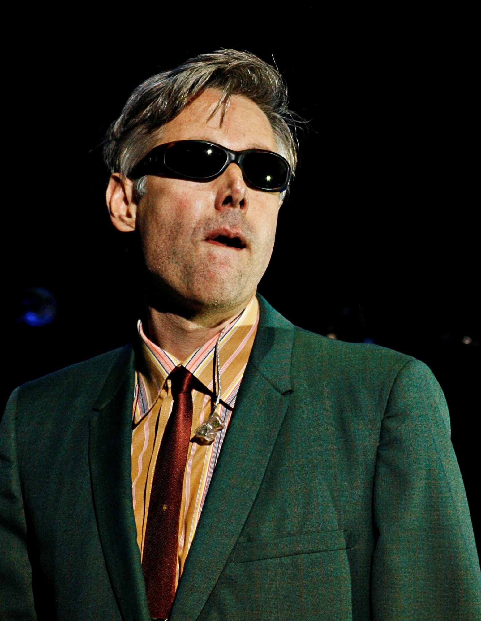 Adam Yauch, Beastie Boys at Brixton Academy - 05/09/07 Date 5 September 2007(2007-09-05), 21:13 Source Beastie Boys - MCA Author Fabio Venni from London, UK Original source